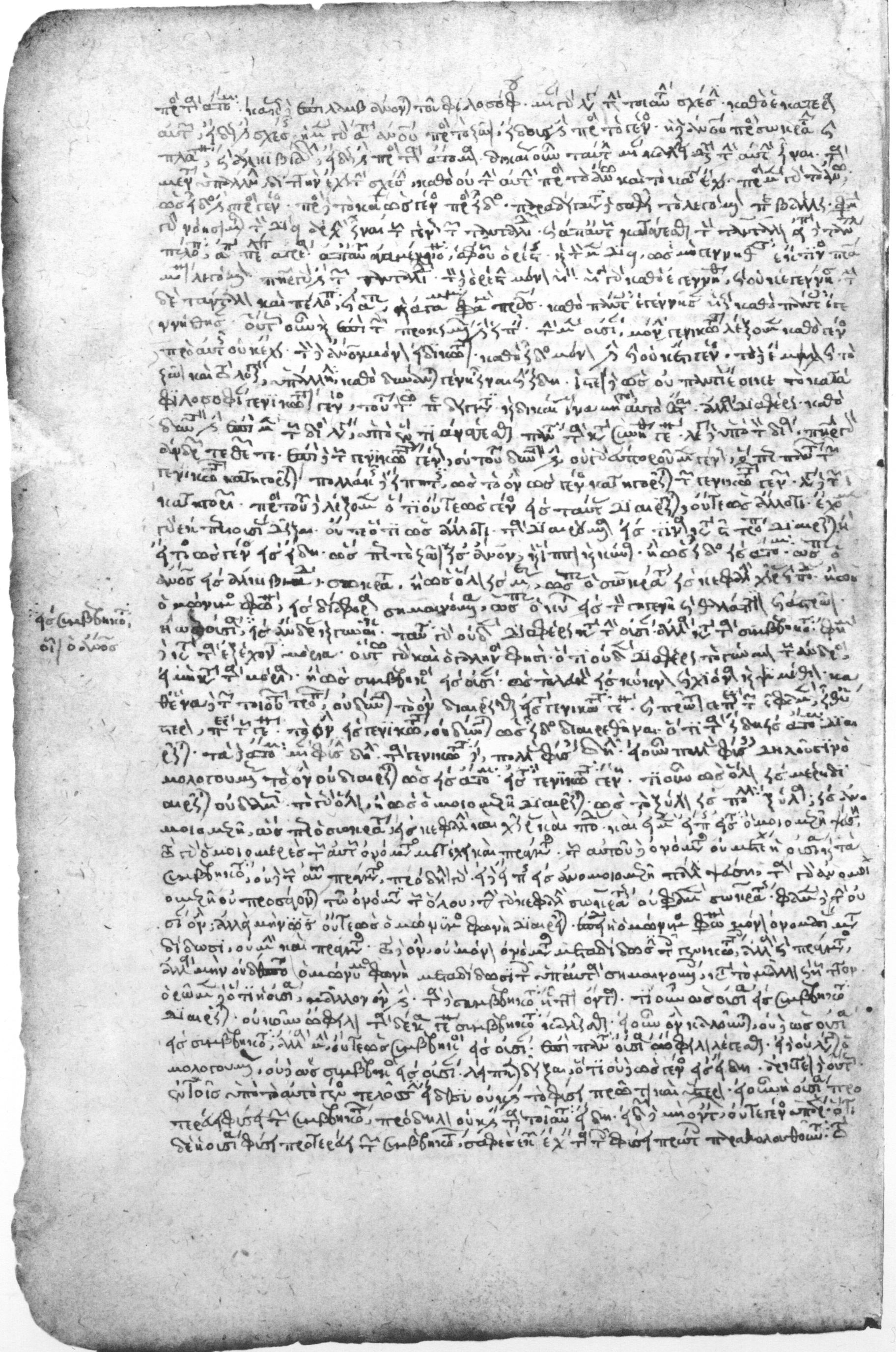 David the Invincible, Commentary on Porphyry’s Isagoge. Manuscript Milan, Biblioteca Ambrosiana, D 47 sup., fol. 24v.